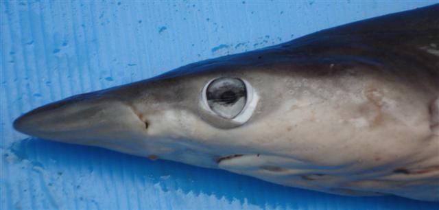 Head of sliteye shark (Loxodon macrorhinus). Photo taken in the Ranong Fishing Port (Thailand).